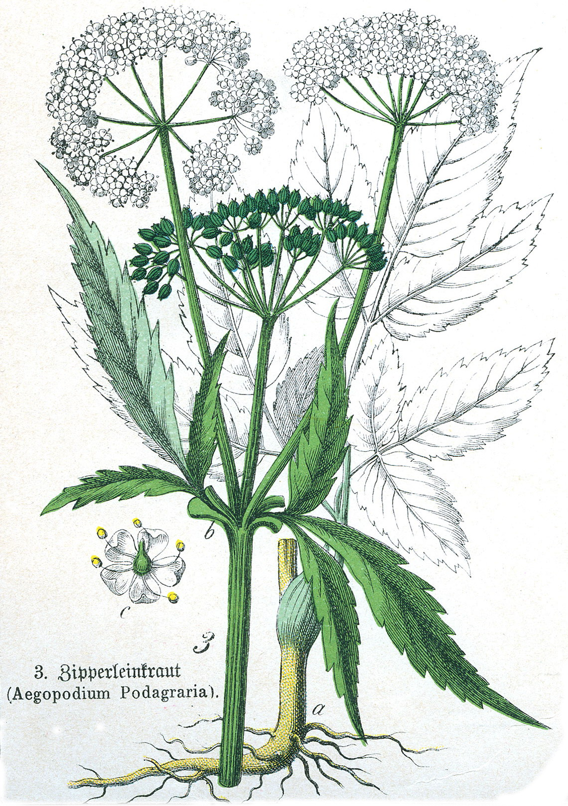 Aegopodium podagraria, illustration from «Naturgeschichte des Pflanzenreichs», table XVI (fragment)